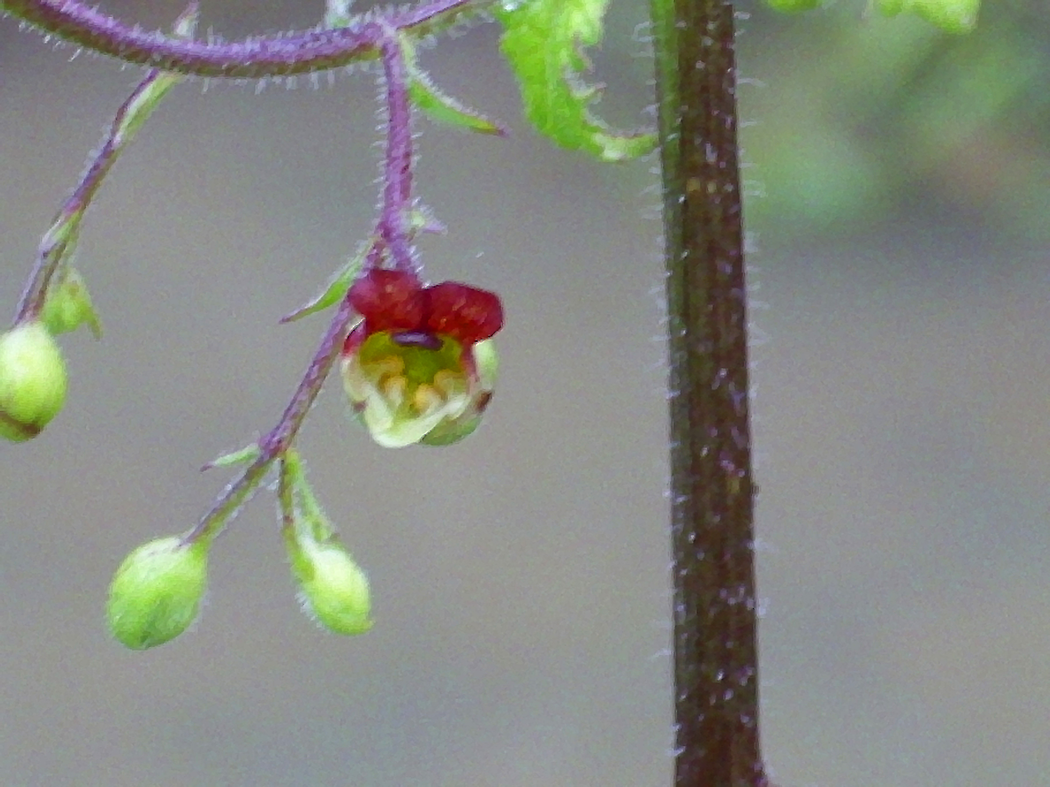 Scrophularia oxyrhyncha flower front view, "Barquizuelas" Sierra Madrona, Spain